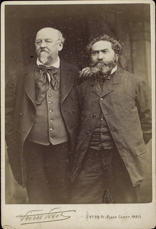 Emile Erckmann and Alexandre Chatrian, French writers who worked together using the name Erckmann-Chatrian